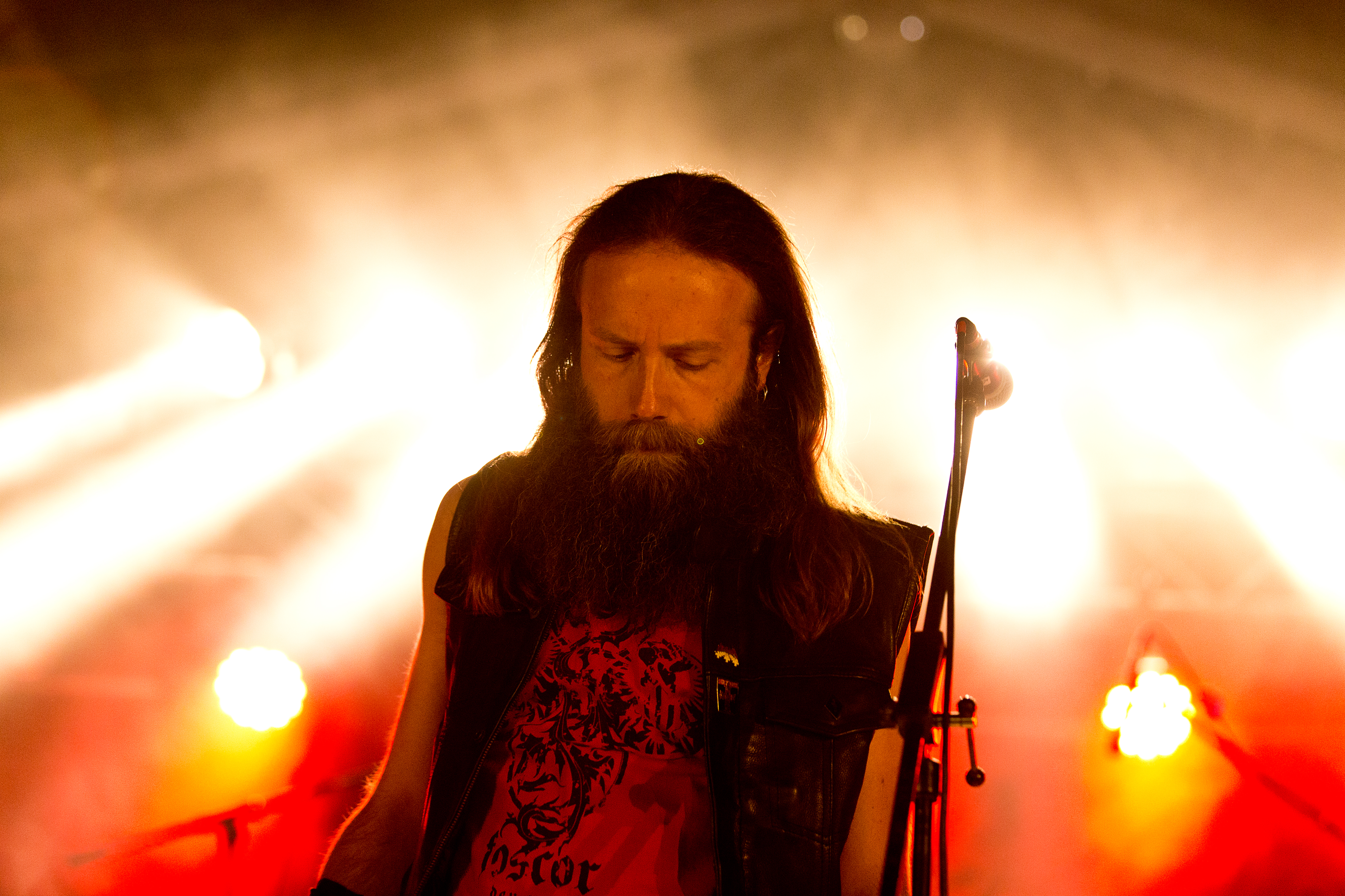 The Spanish death metal band Graveyard at the Party.San Metal Open Air 2016 in Obermehler-Schlotheim/Germany